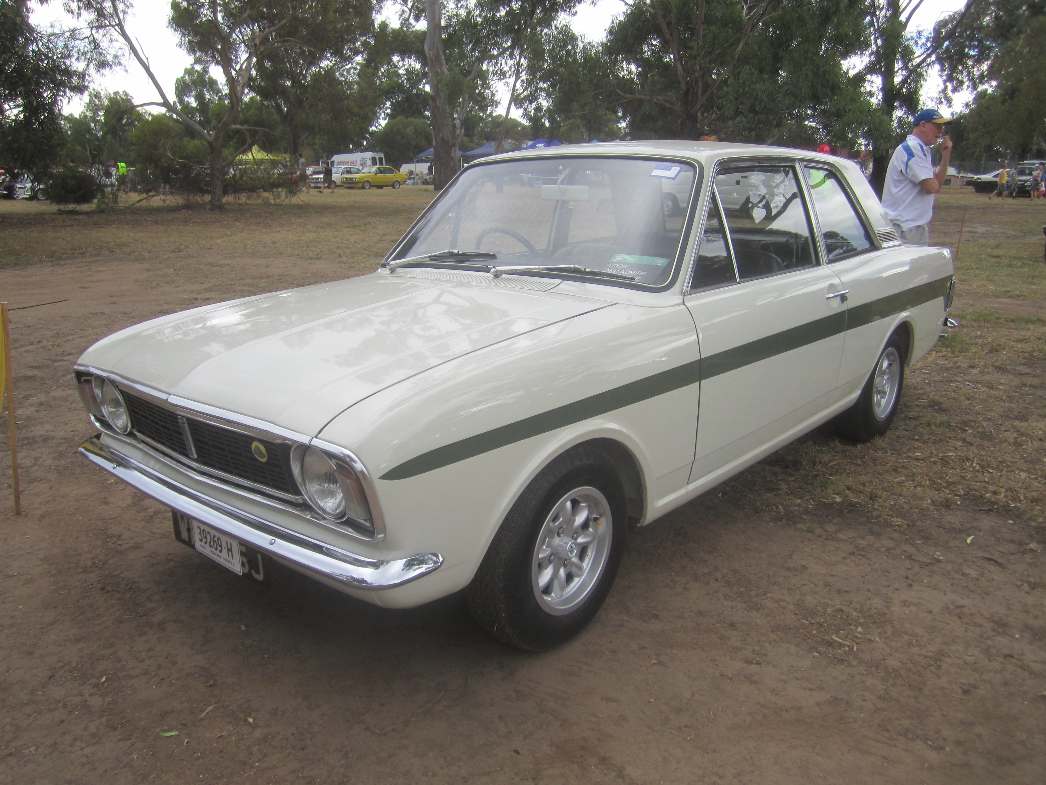 The MkII Lotus Cortina was built from 1967 to 1970 and was more similar to the GT than the Mk I was, the interior was indentical to the GT, and also got the 1968 update where the dials on top of the dash were brought down int the dash, only the engine and suspension was different, it got a black grille and Lotus badging, there was now a choice of colours but still only available in 2 door. This car, in the typical Lotus Cortina white with green side flashes, it spent most of its life in Scotland, then England, imported into Australia in 2010. Engine; 109hp 1558 twin DOHC Lotus improved Kent